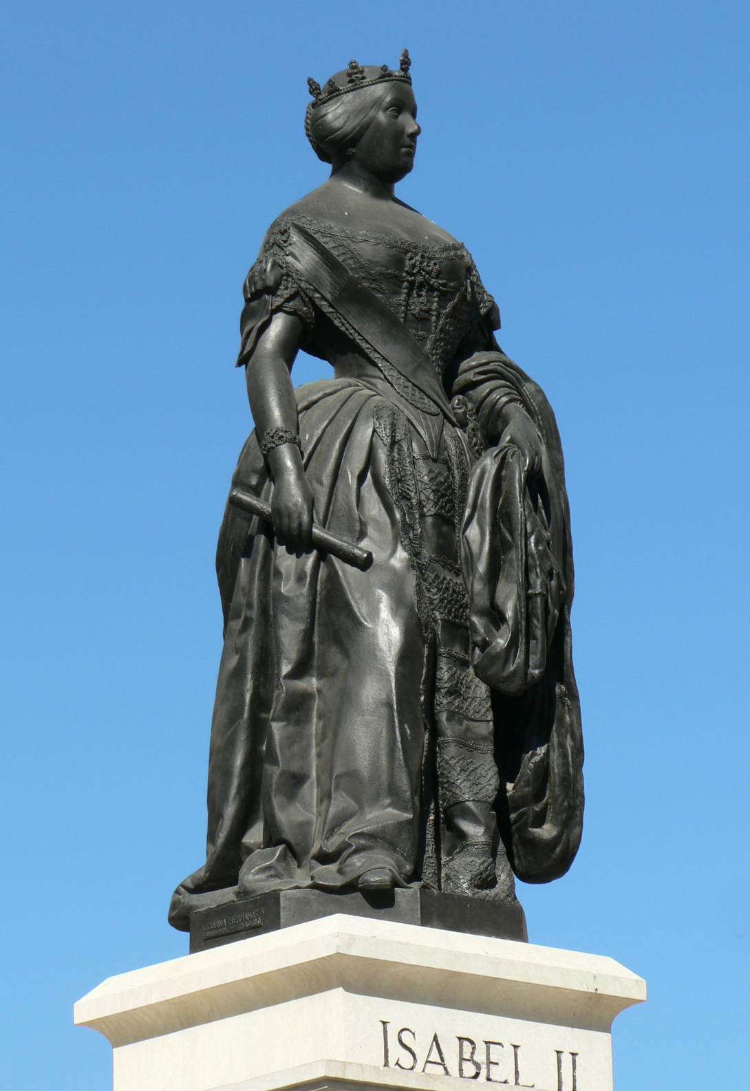 Bronze statue of Isabel II queen of Spain, at square that takes her name, in Madrid (Spain)